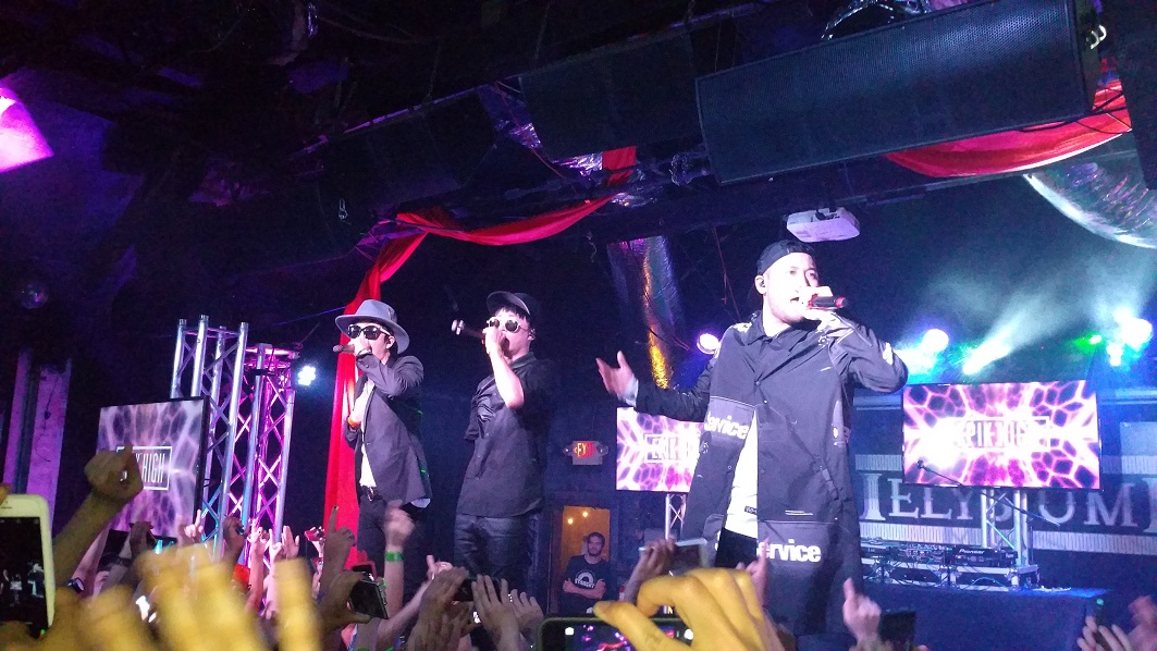 Epik High, 2015 K-Pop Night Out at SXSW